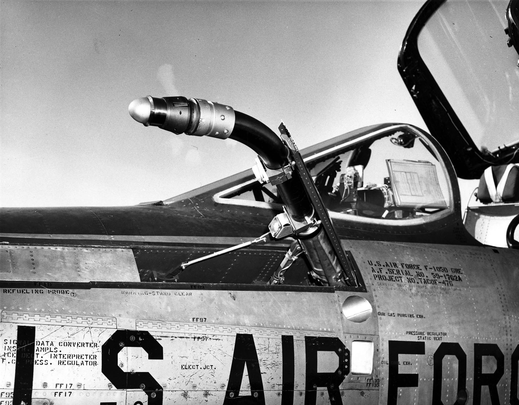 A U.S. Air Force Republic F-105D-6-RE Thunderchief (s/n 59-1762) refueling probe detail. The F-105D/F/G models had two types of in-flight refueling equipment: a probe (for the drogue) and a receptacle (for the boom). The F-105D 59-1762 was lost over Southeast Asia on 12 September 1968 while in service with the 357th Tactical Fighter Squadron, 355th Tactical Fighter Wing. On 12 September 1968, Major Samuel C. Maxwell was the pilot of the lead aircraft (F-105D 59-1762), call sign "Wolf 03", in a flight of 4 that was conducting a late afternoon/early evening strike mission in the region of North Vietnam that bordered on the south by the Demilitarized Zone (DMZ), on the north by an imaginary line 30 miles north of the DMZ, on the east by the coastline and on the west by Laotian border. At 1731 hours, Wolf flight was directed to attack a line of small boats sailing on the Song Ron River 15 miles south of Mui Ron Ma. Major Maxwell initiated his strafing run on the boats and was seen firing at the target when his aircraft was hit by intense and accurate ground fire. Other flight members also saw the Thunderchief hit the ground and explode on impact (location 17 52 N 106 23 E), Major Maxwell was killed.